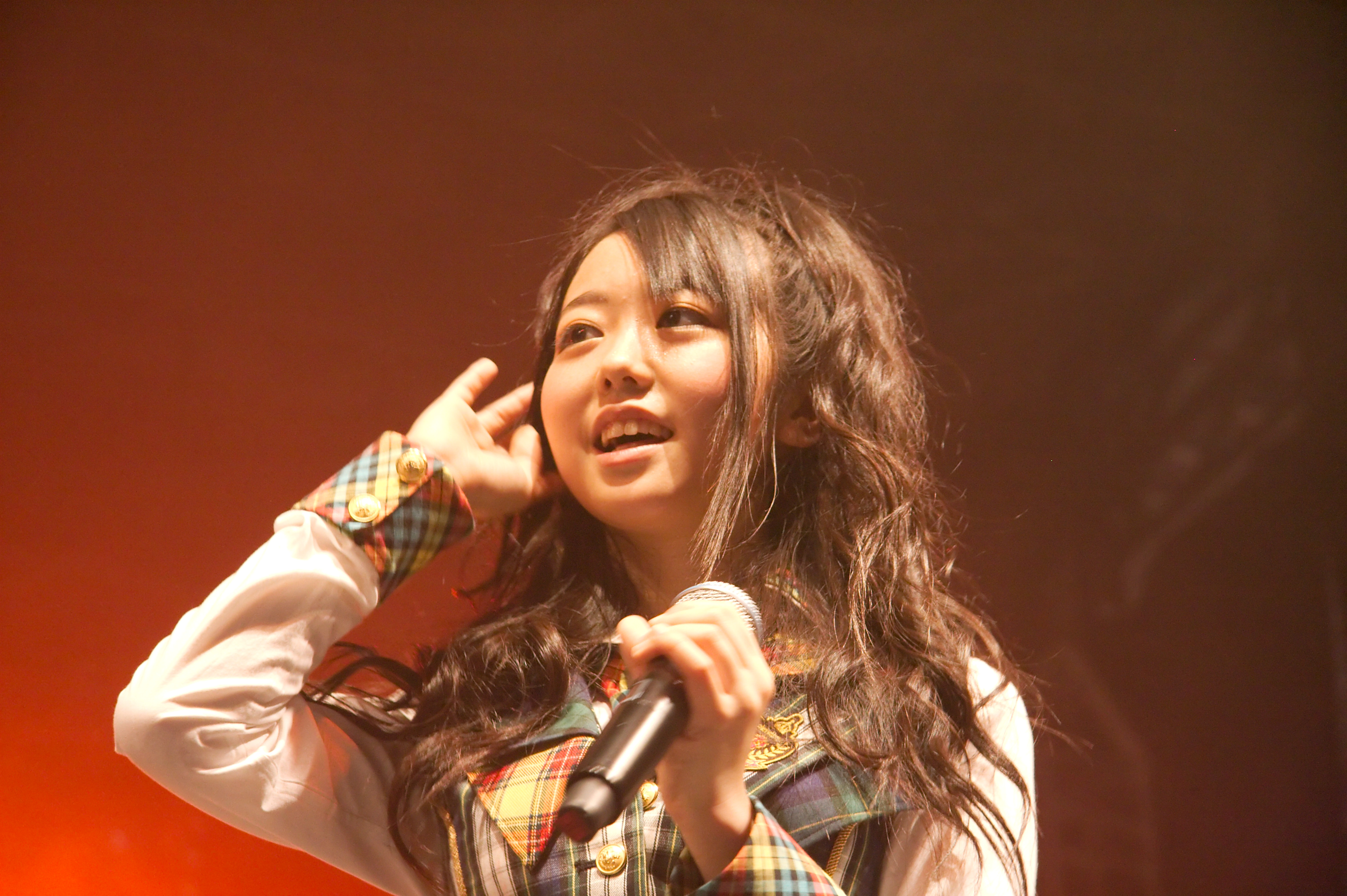 AKB48 live at Japan Expo 2009 (Paris, France).